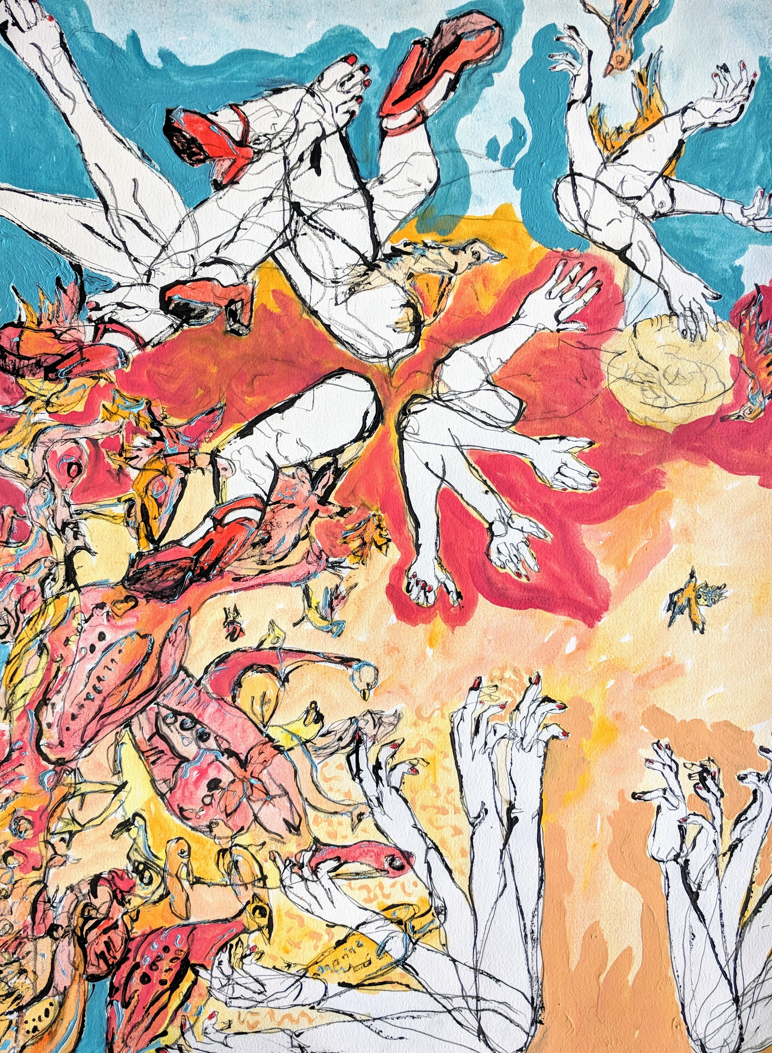 L'Appel du Vide painting, 2018.